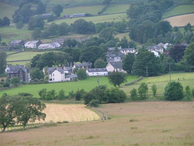 Threlkeld. West end of the village with cottages along the road up to the Blencathra Centre.